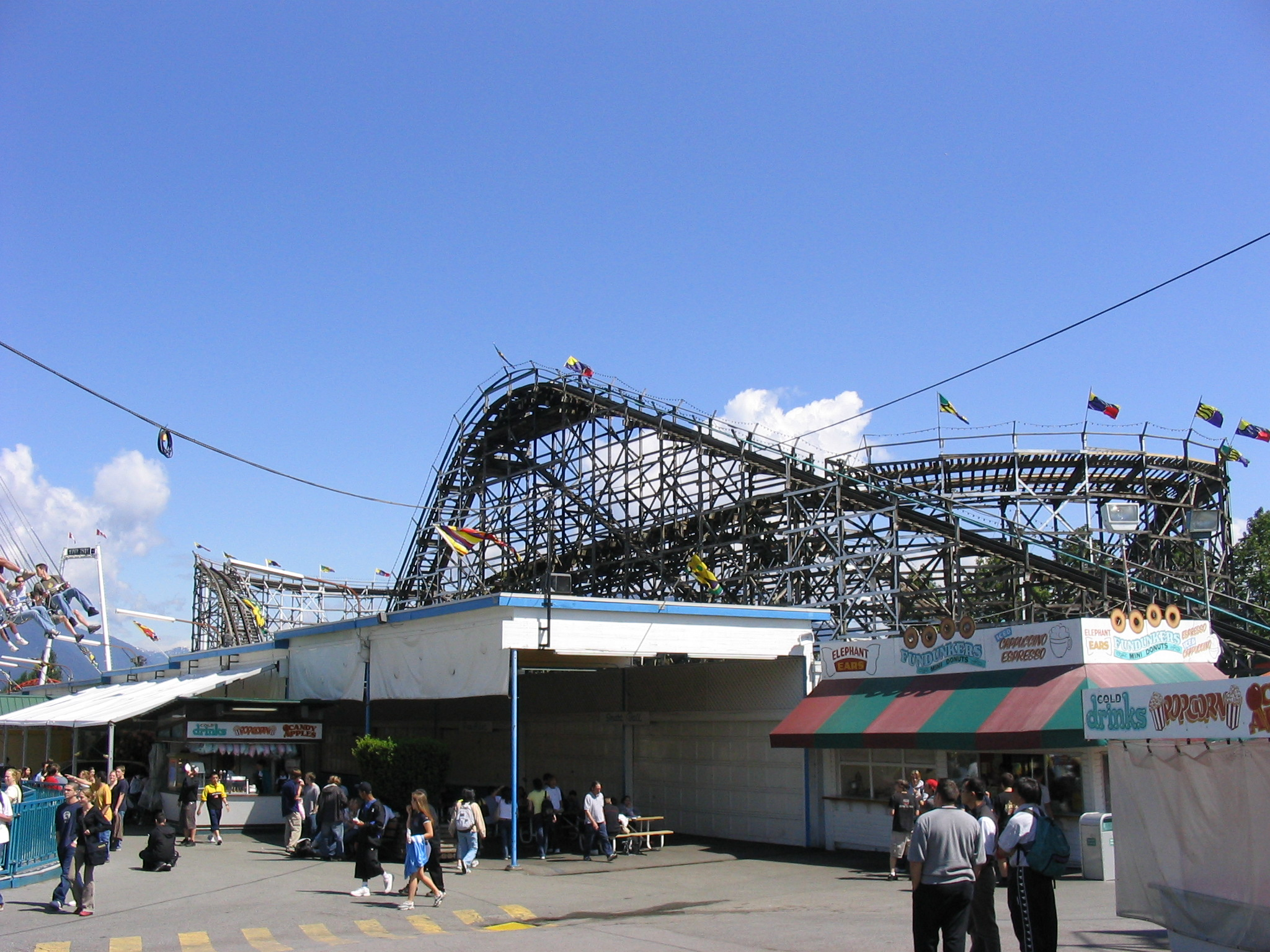 Picture of the The Coaster at Playland